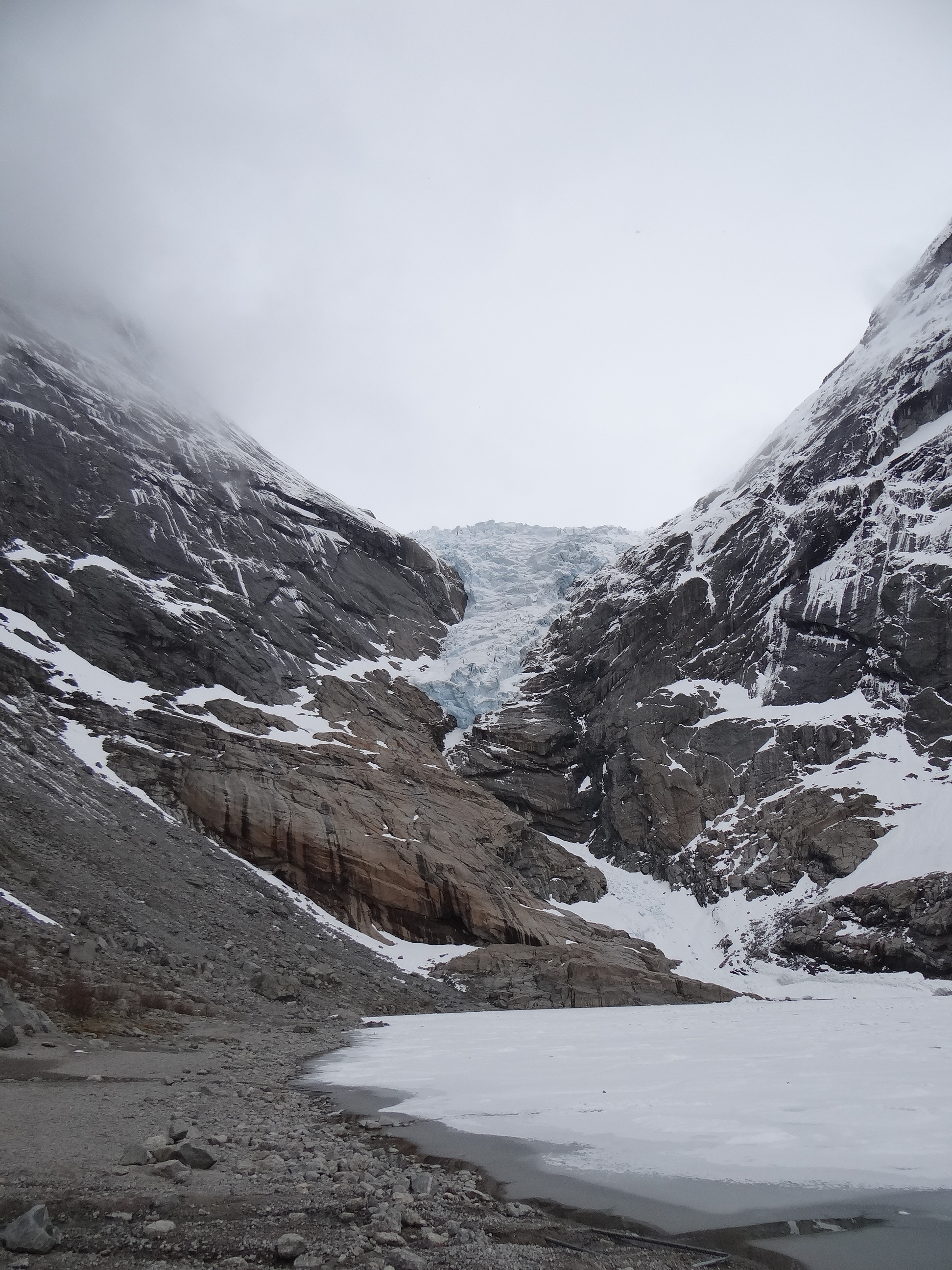 Briksdalsbreen - Norwegian Glacier in March 2015